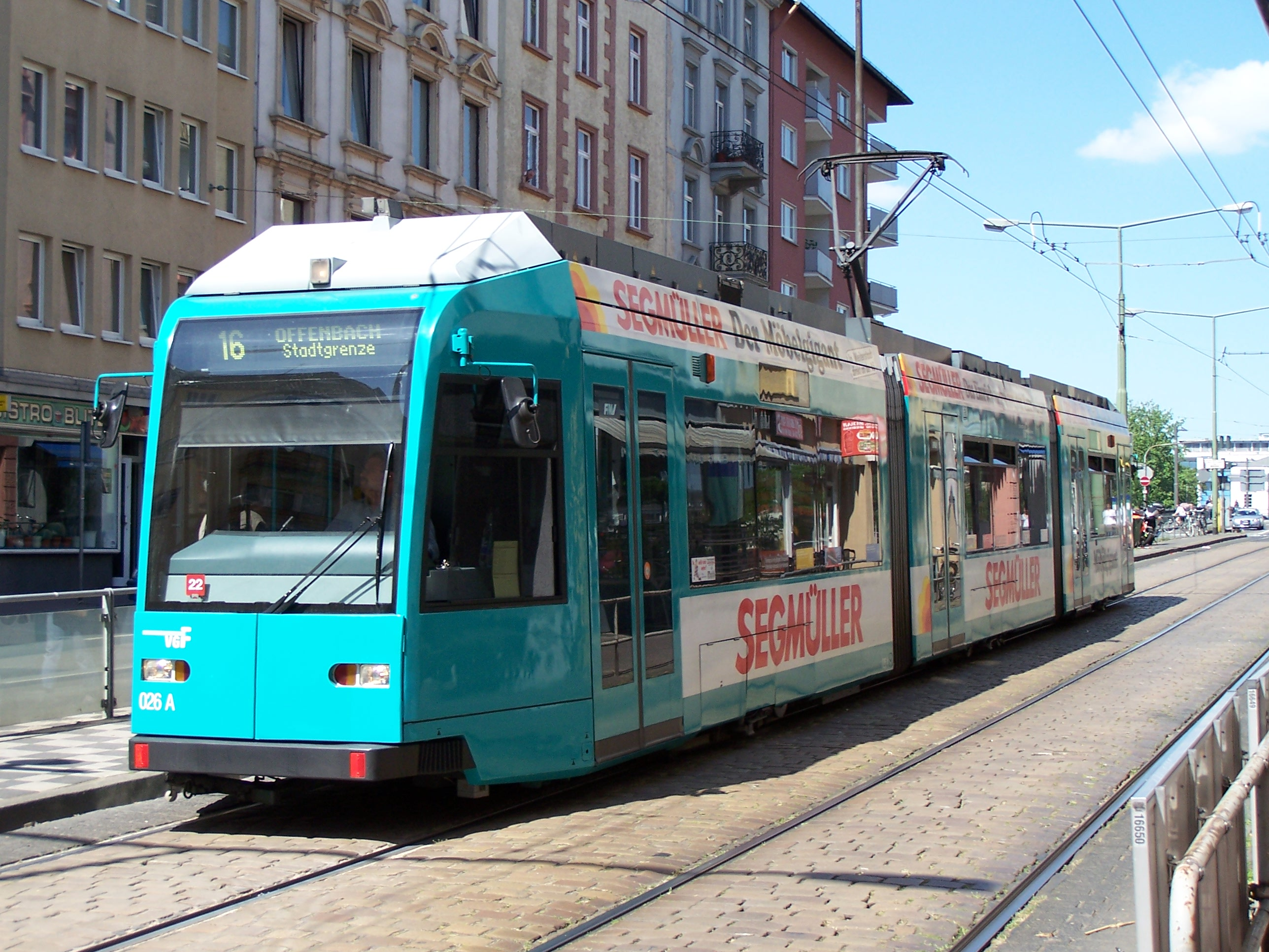 VGF Tramcar R 026 at Frankensteiner Platz, Frankfurt am Main, Germany, May 1st, 2007.